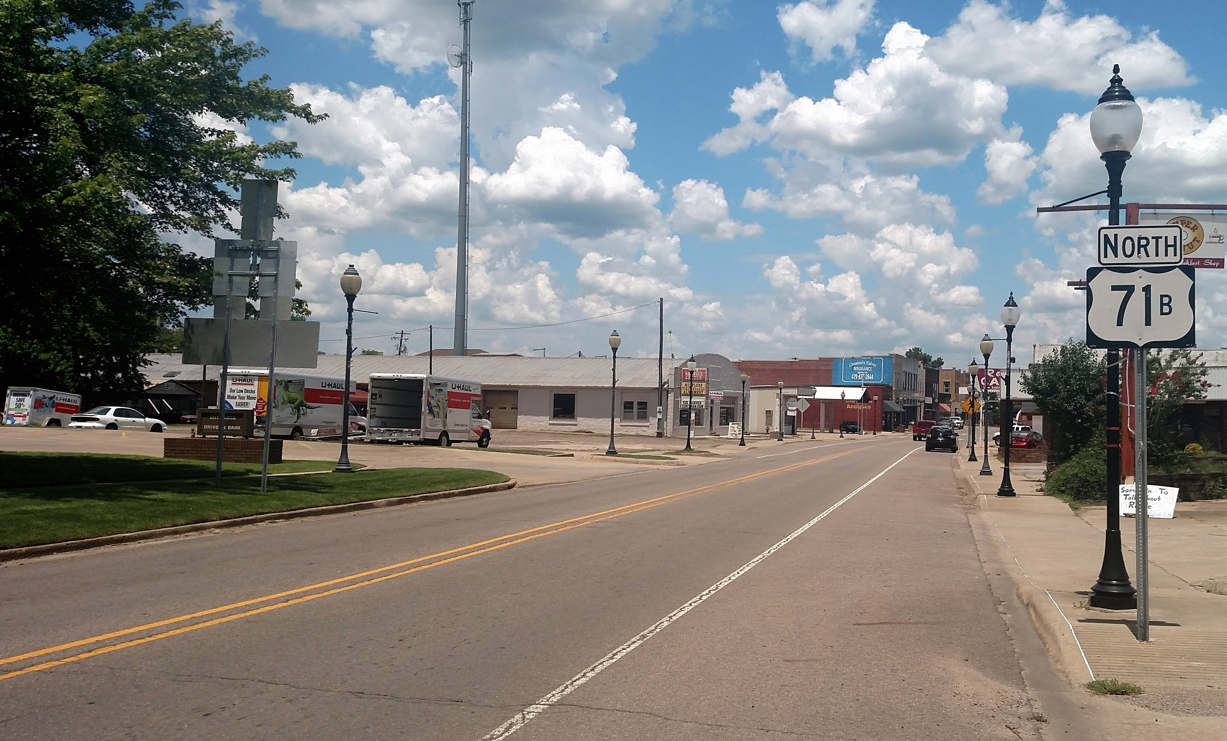 First reassurance marker on US 71B north of AR 80 in downtown Waldron, Arkansas